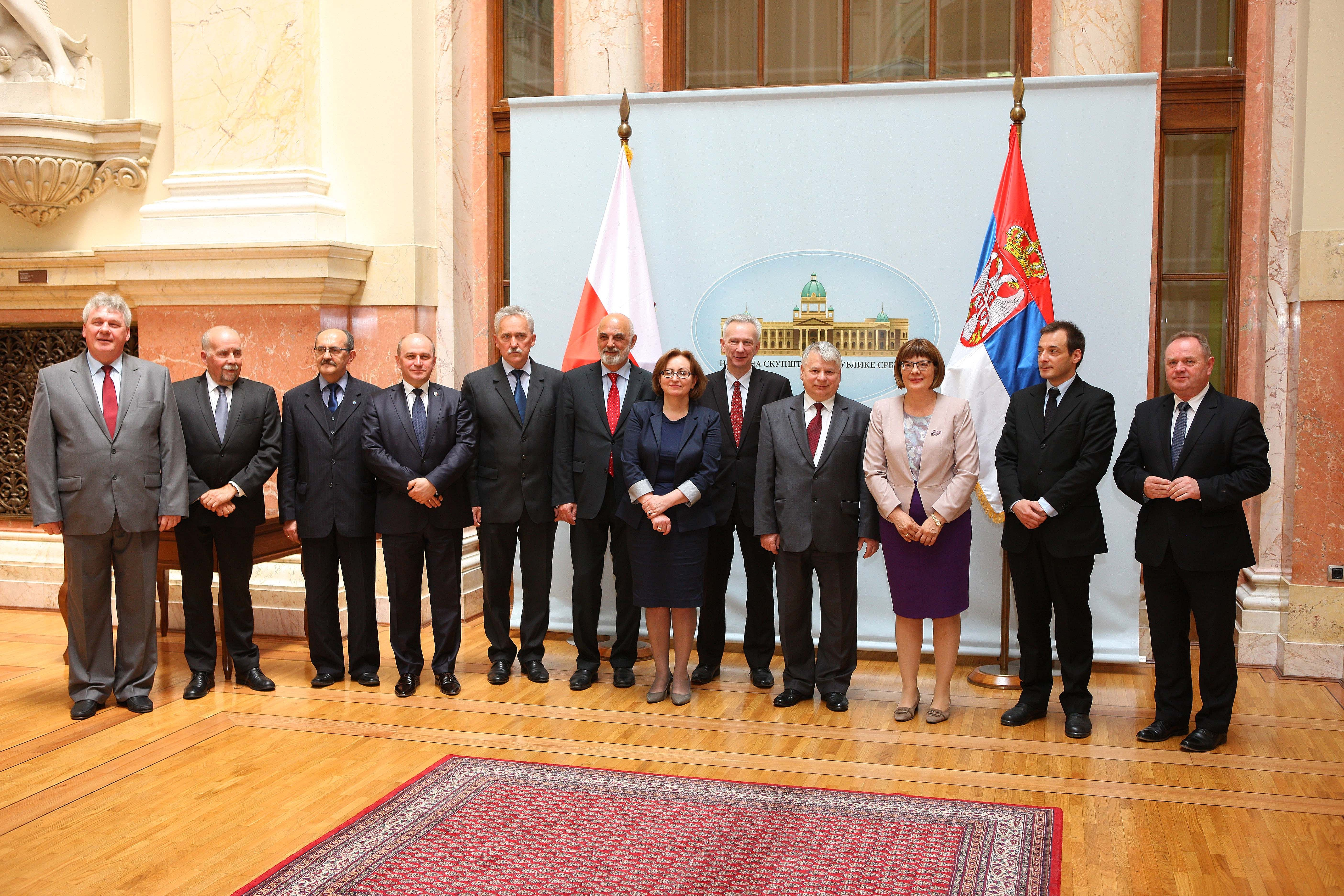 Meeting of the Polish Senate delegation with Maja Gojković in the National Assembly of Serbia